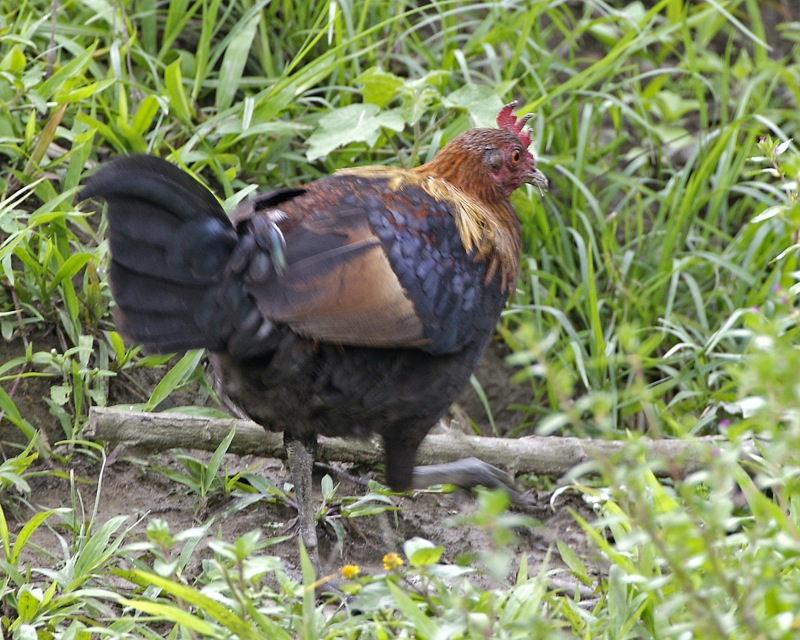 Red Junglefowl Gallus gallus - immature male. Kaziranga, Assam, India; 15 April 2008.